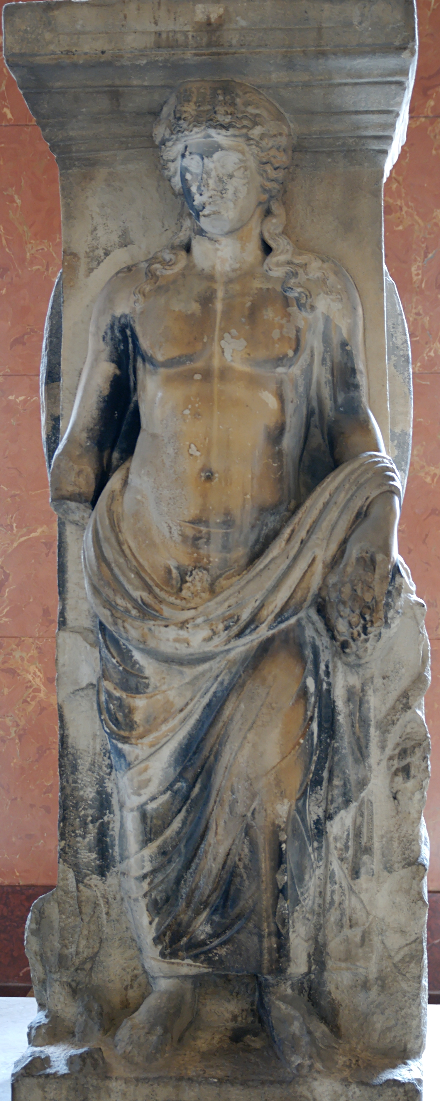 Dionysos, side B of a caryatid from a portico known as “Las Incantadas”. Marble, Greek artwork, late 2nd century CE–early 3rd century CE. From the agora of Salonica, ancient Thessalonike.